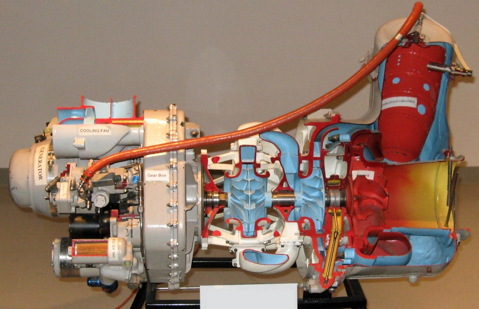 Garrett-AiResearch GTC85 auxiliary power unit, Hiller Aviation Museum, Santa Clara, California